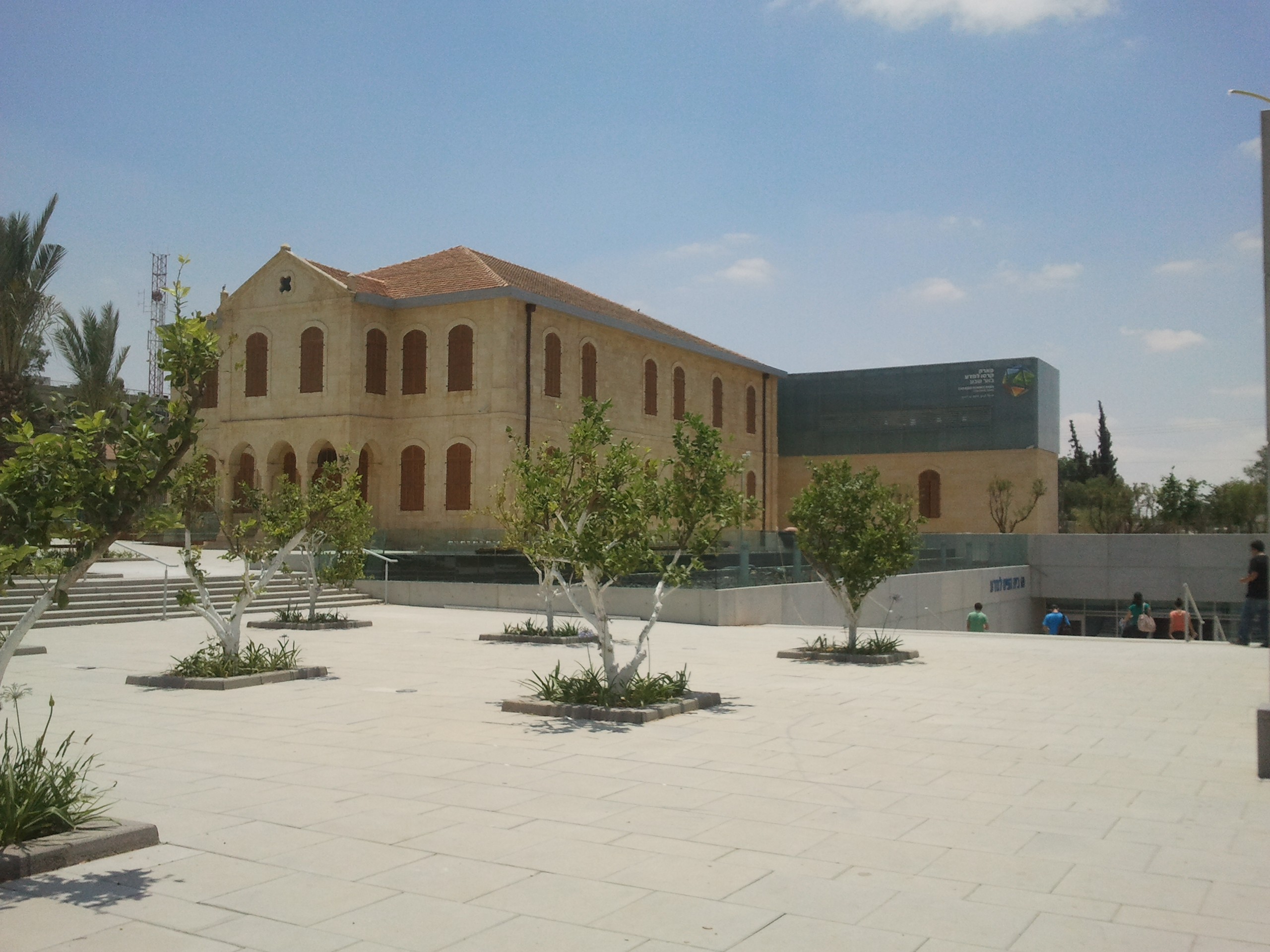 The Carasso science park in beer sheba